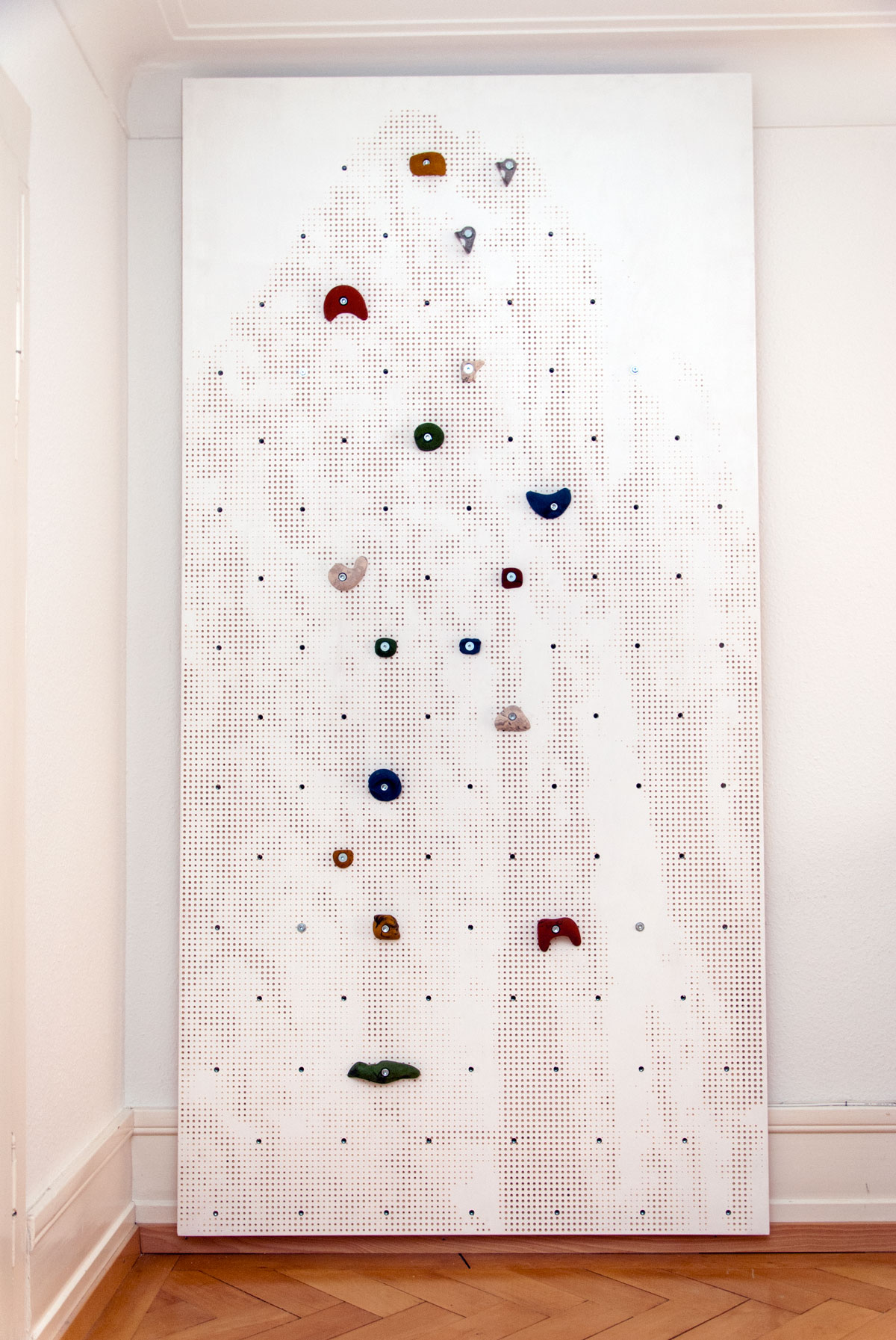 A private climbing wall for kids with a hole pattern that replicates Patagonia's famous peak.